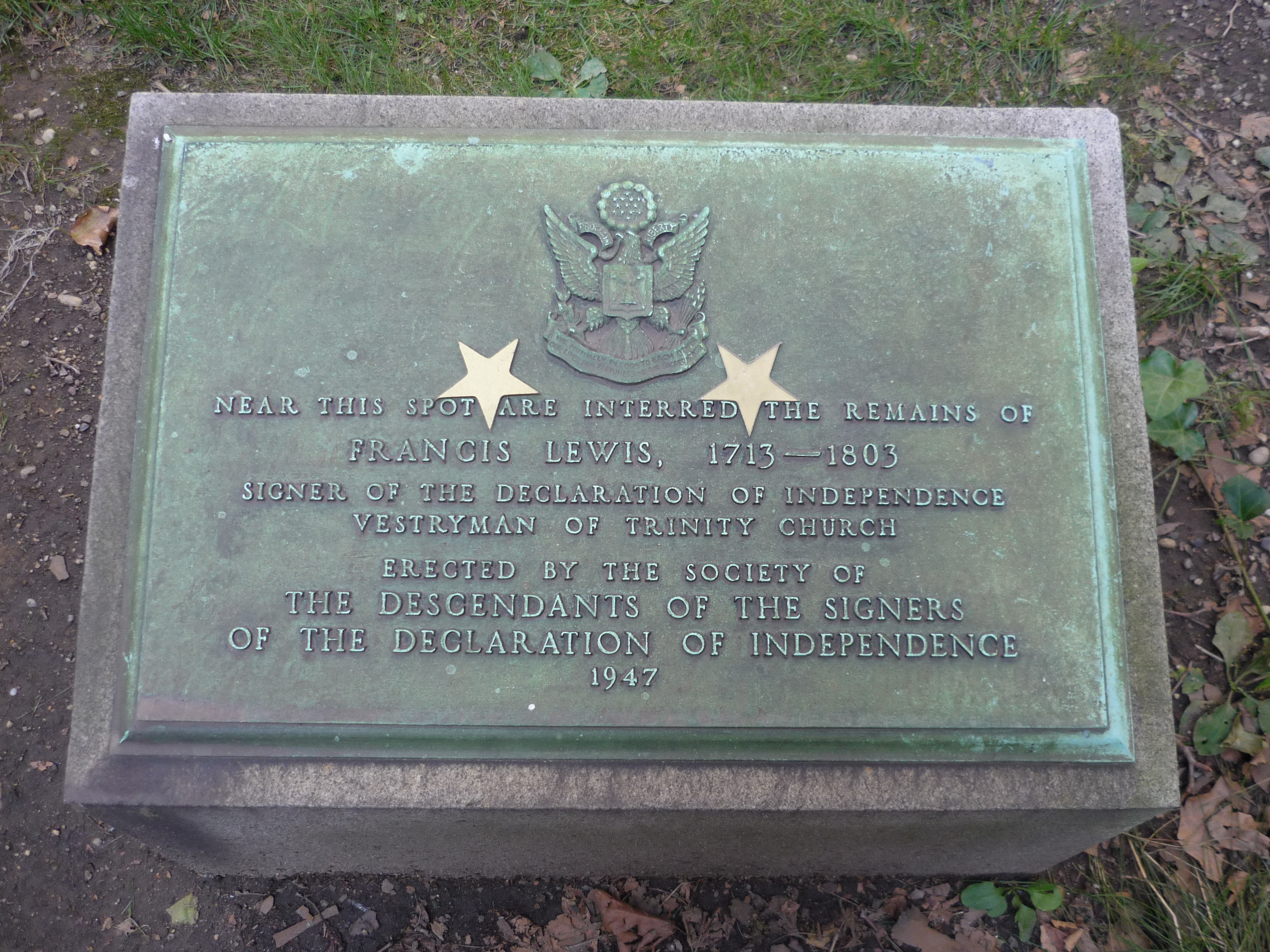 This photo is of Wikis Take Manhattan goal code G10, Francis Lewis.